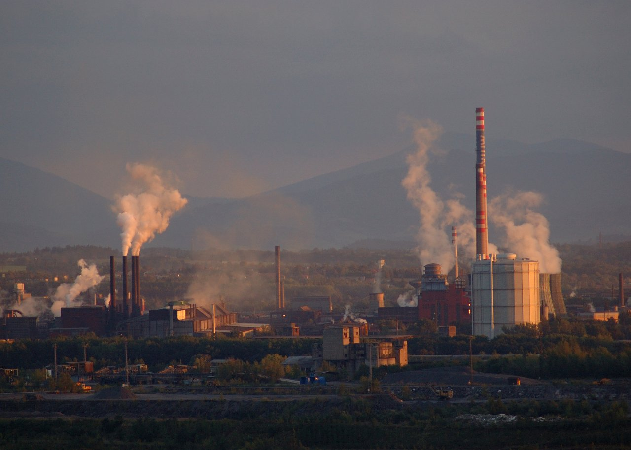 Steel plant and power plant of ArcelorMittal Ostrava, Nová huť iron works, Ostrava, Czech Republic